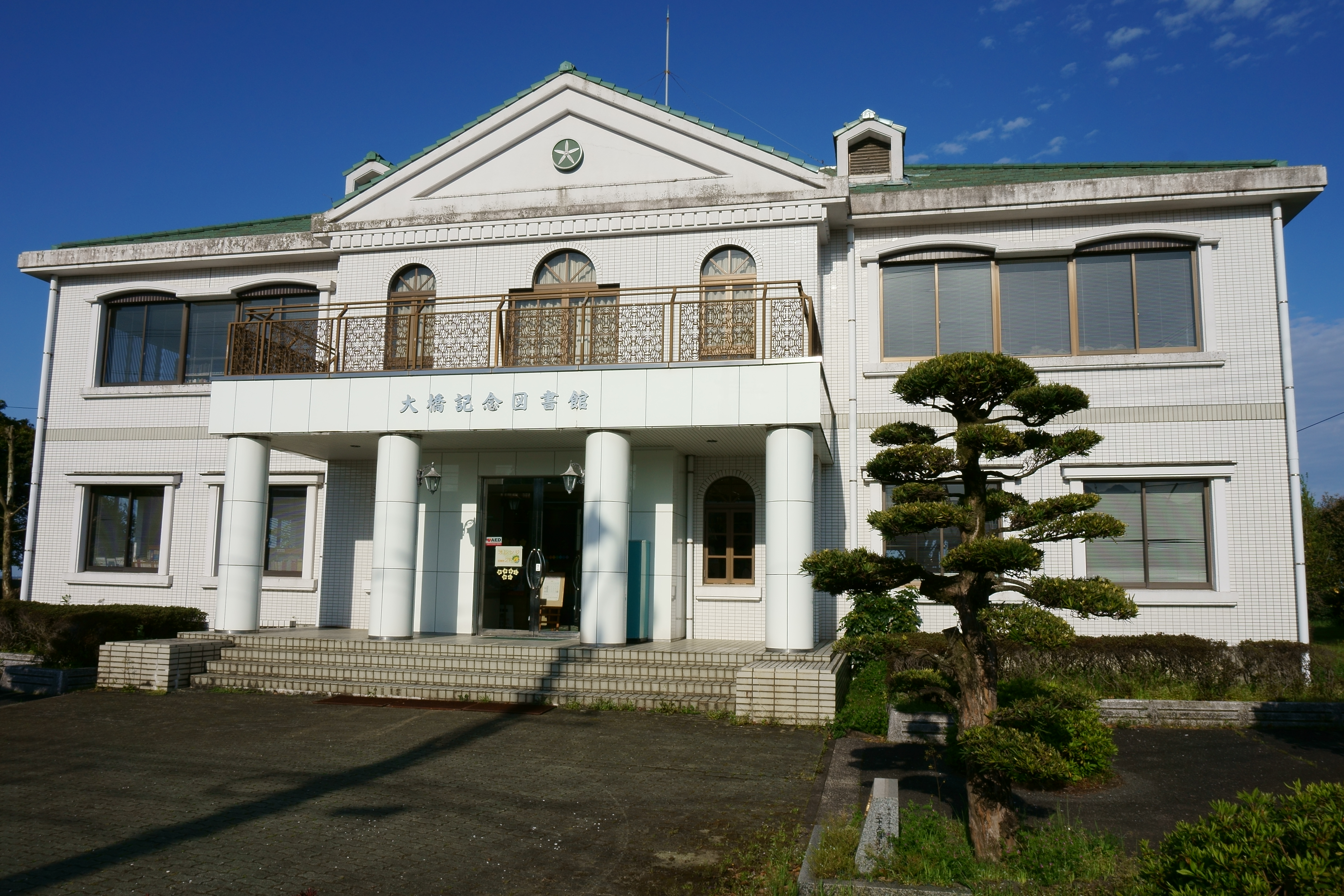 大橋記念図書館、佐賀県太良町多良。